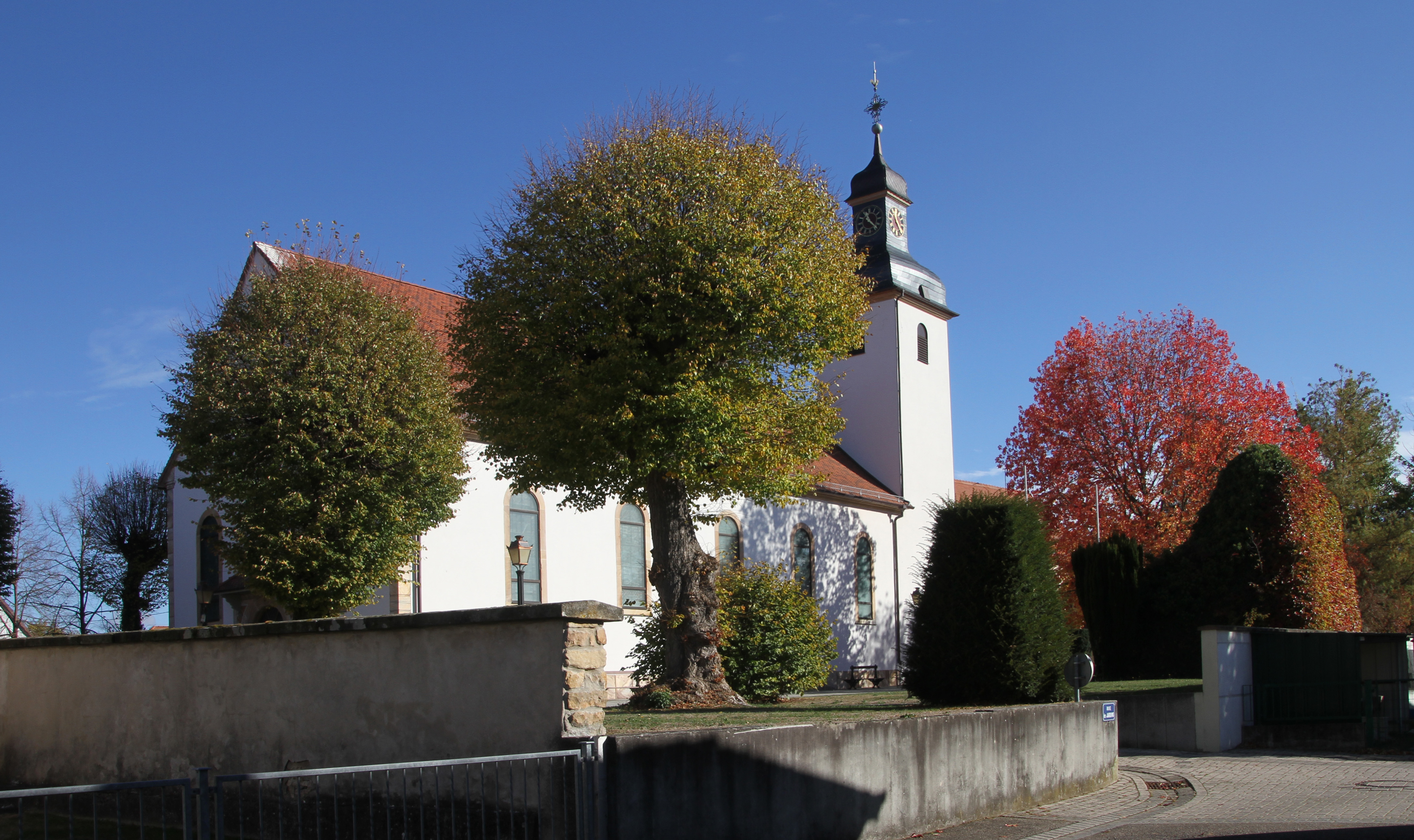 Church of Sainte-Croix in Beinheim.